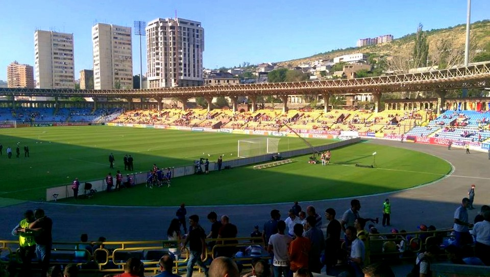 Armenia vs Portugal, 13 June 2015, V. Sargsyan Rep. Stad. Yerevan